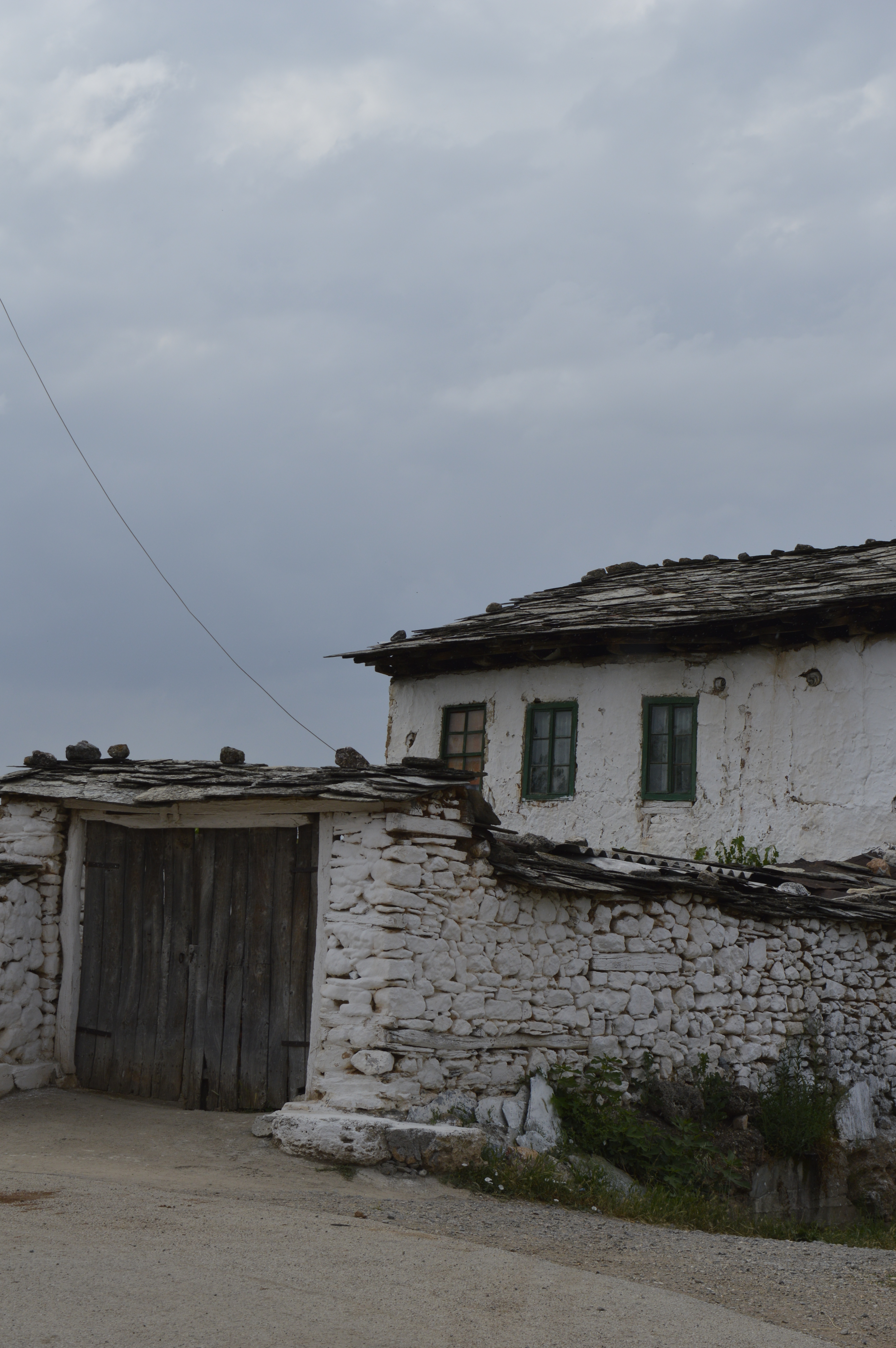 Old house in the village Oraovec